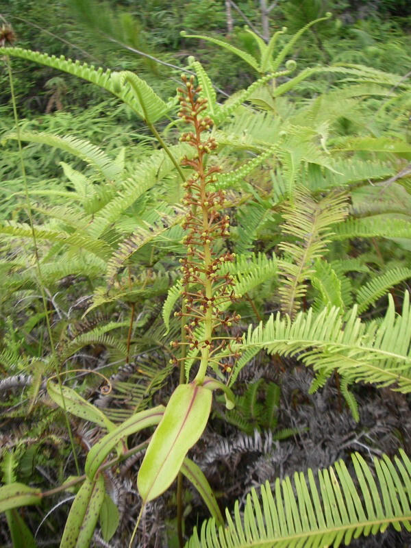 Nepenthes hybird?